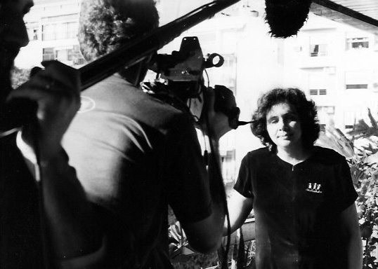 This image was captured during one of the key interviews granted by Ms. Ana Maria Shua for the documentary film “En el nombre del padre”.